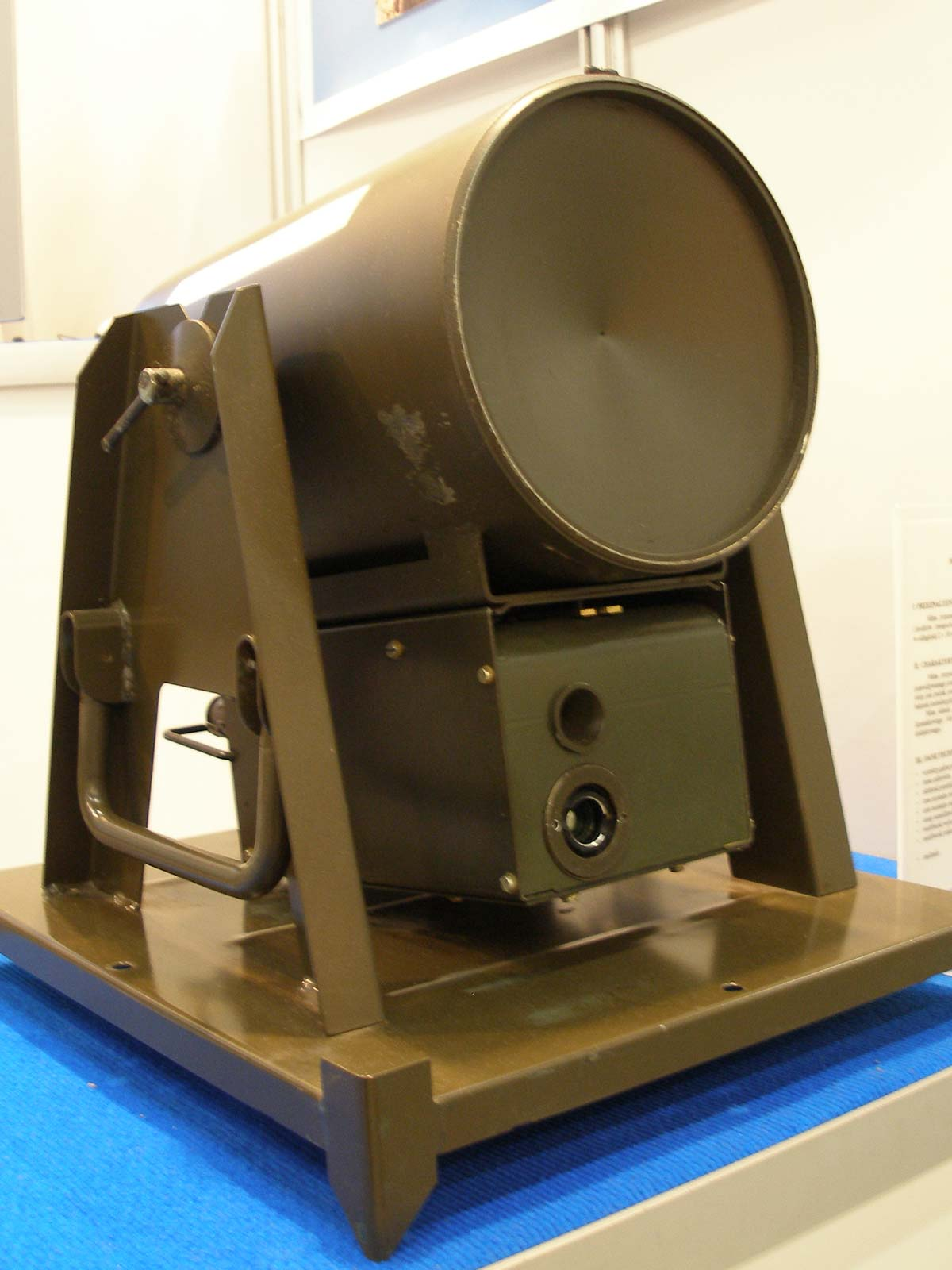 Polish MPB landmine